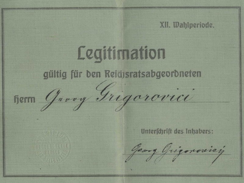 Identity card issued (under the germanized name Georg Grigorovici) to Gheorghe Grigorovici (1871-1950), Romanian ethnic, member of the Parliament of Austria